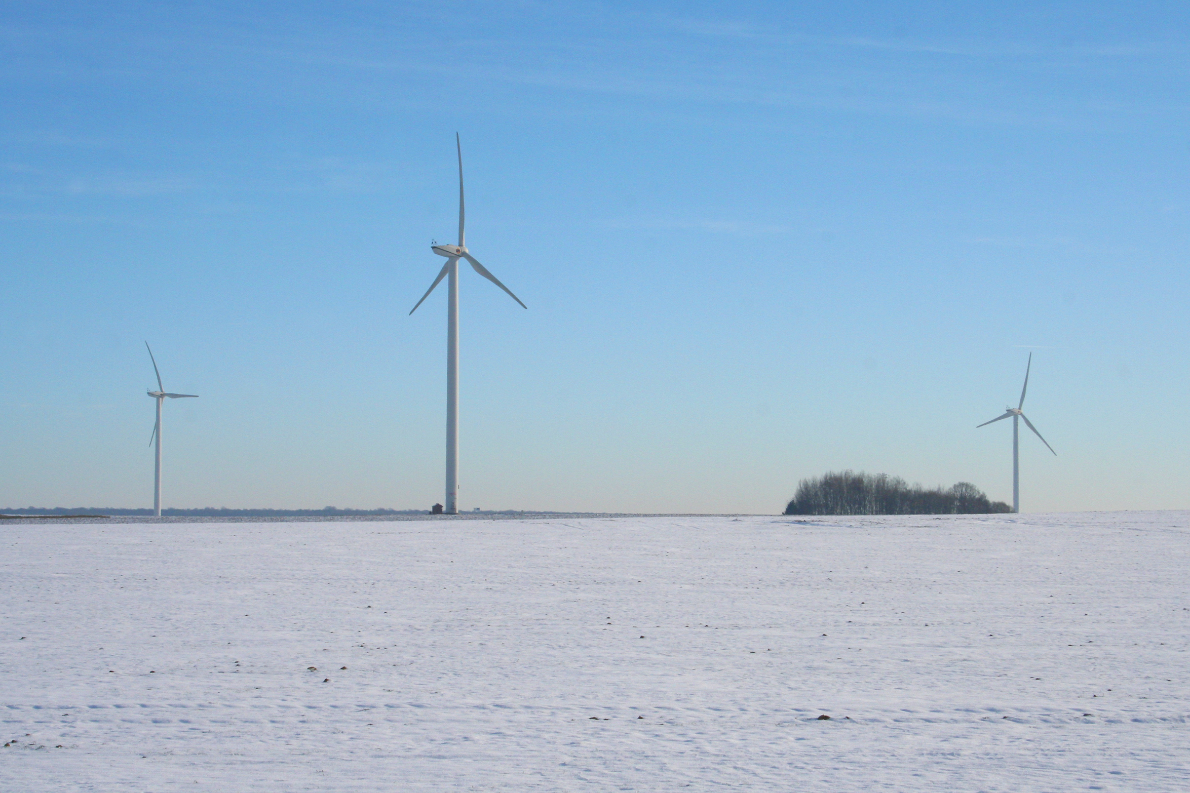 Tarcienne (Belgium), three wind turbines of the wind farm (Power: 1500 kW - diameter: 77 m).